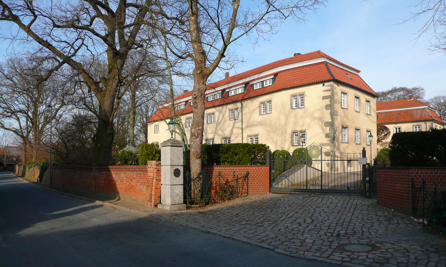 Schloss Rethmar